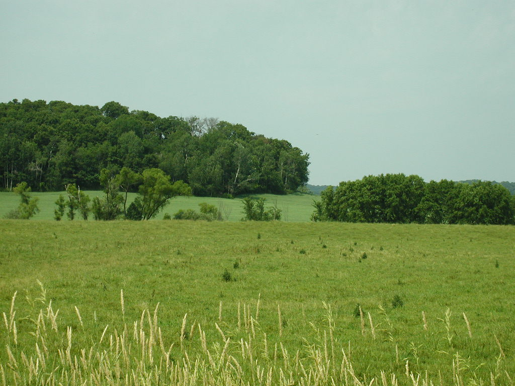 Eau Claire County in the summertime.